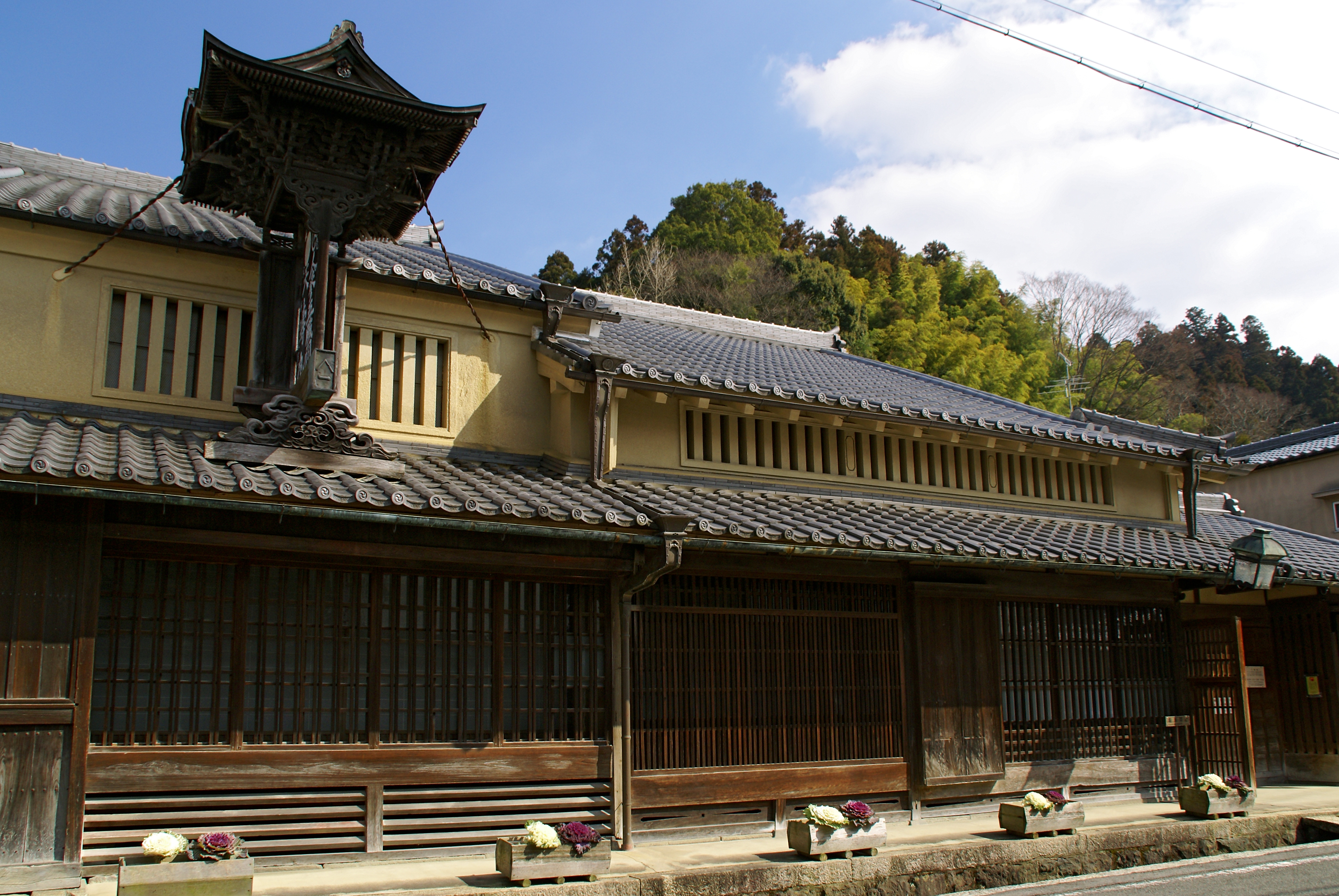 At Matsuyama in Uda, Nara prefecture, Japan Camera: Sony DSLR-A100